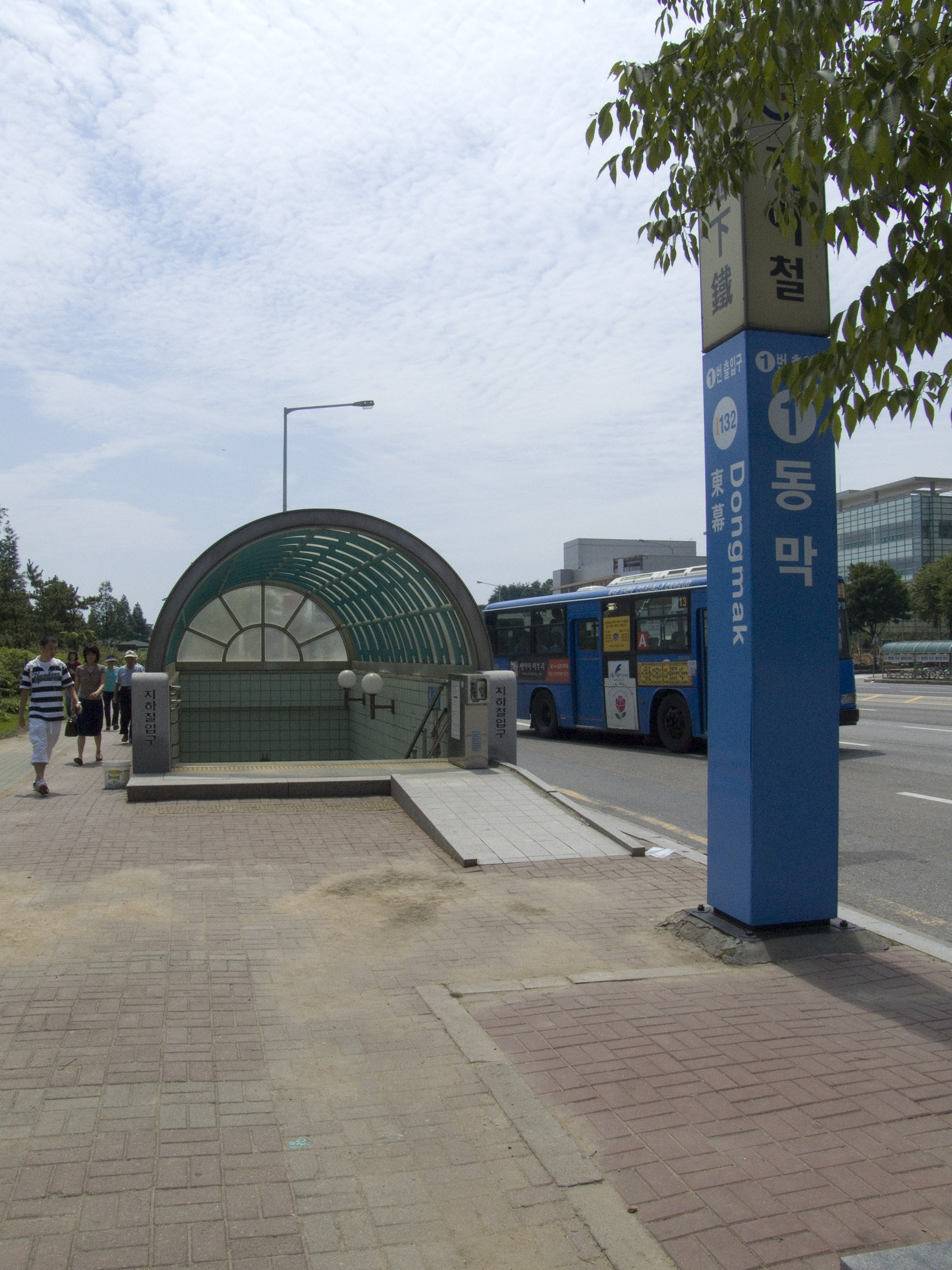 The no.1 entrance to Dongmak Station(Incheon Subway Line 1)